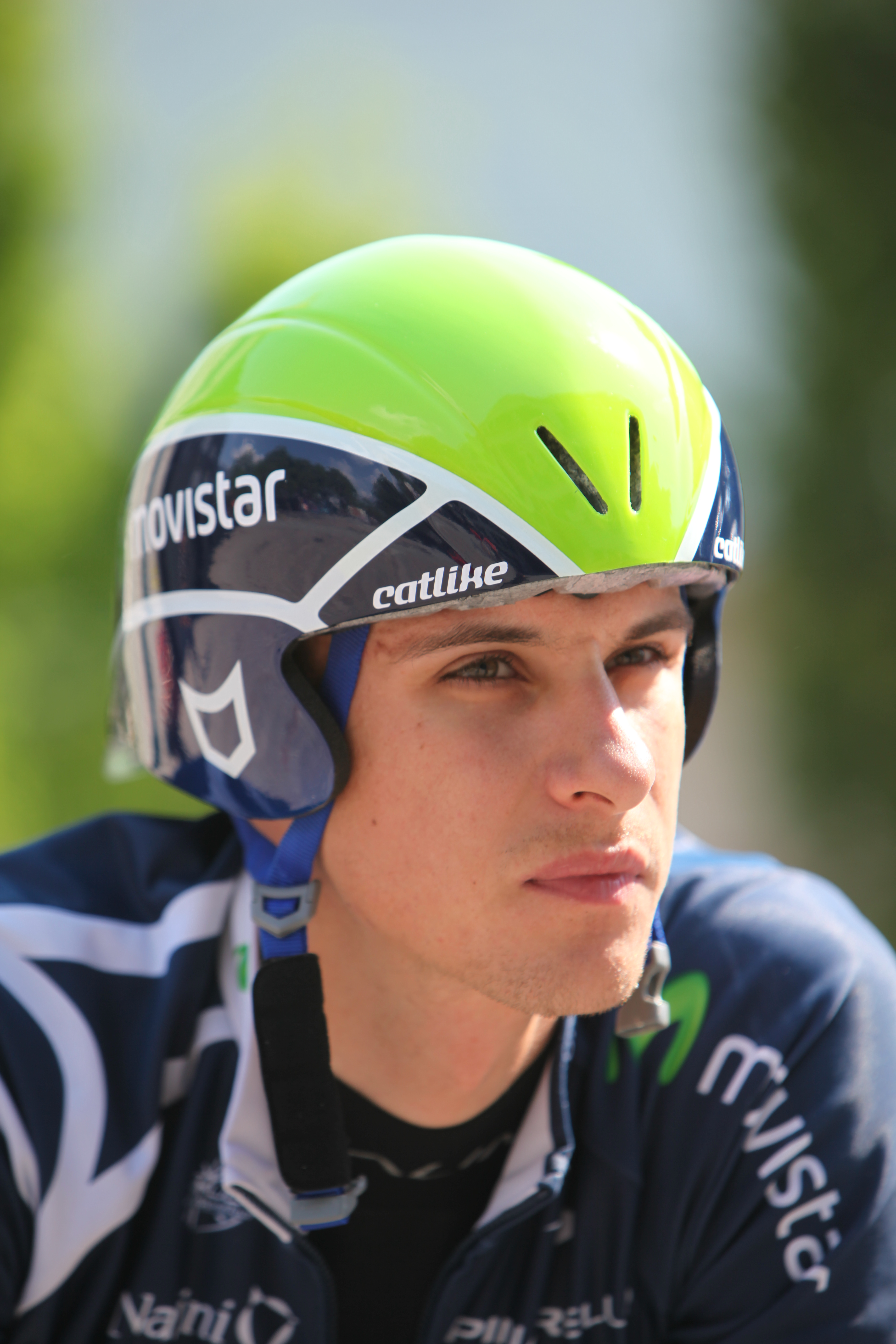 Ignatas Konovalovas at the prologue of the Tour de Romandie 2011